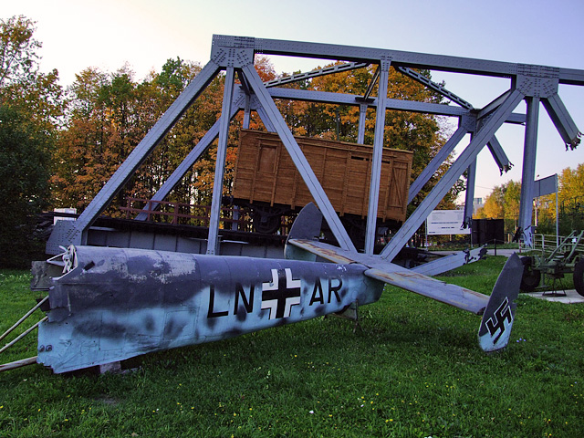 Poklonnaya Gora in Moscow